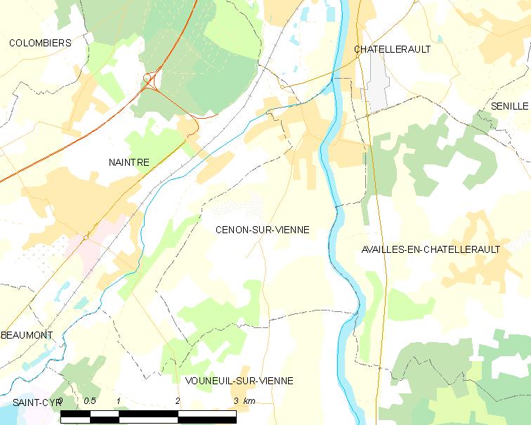 Map of French municipality Cenon-sur-Vienne